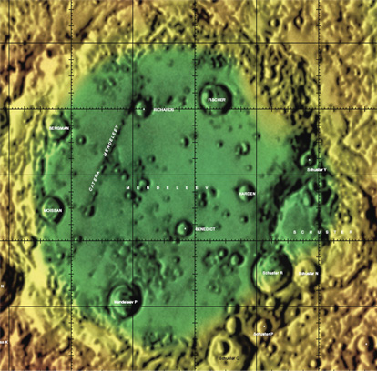 Color-coded LAC 66 from USGS Digital Atlas